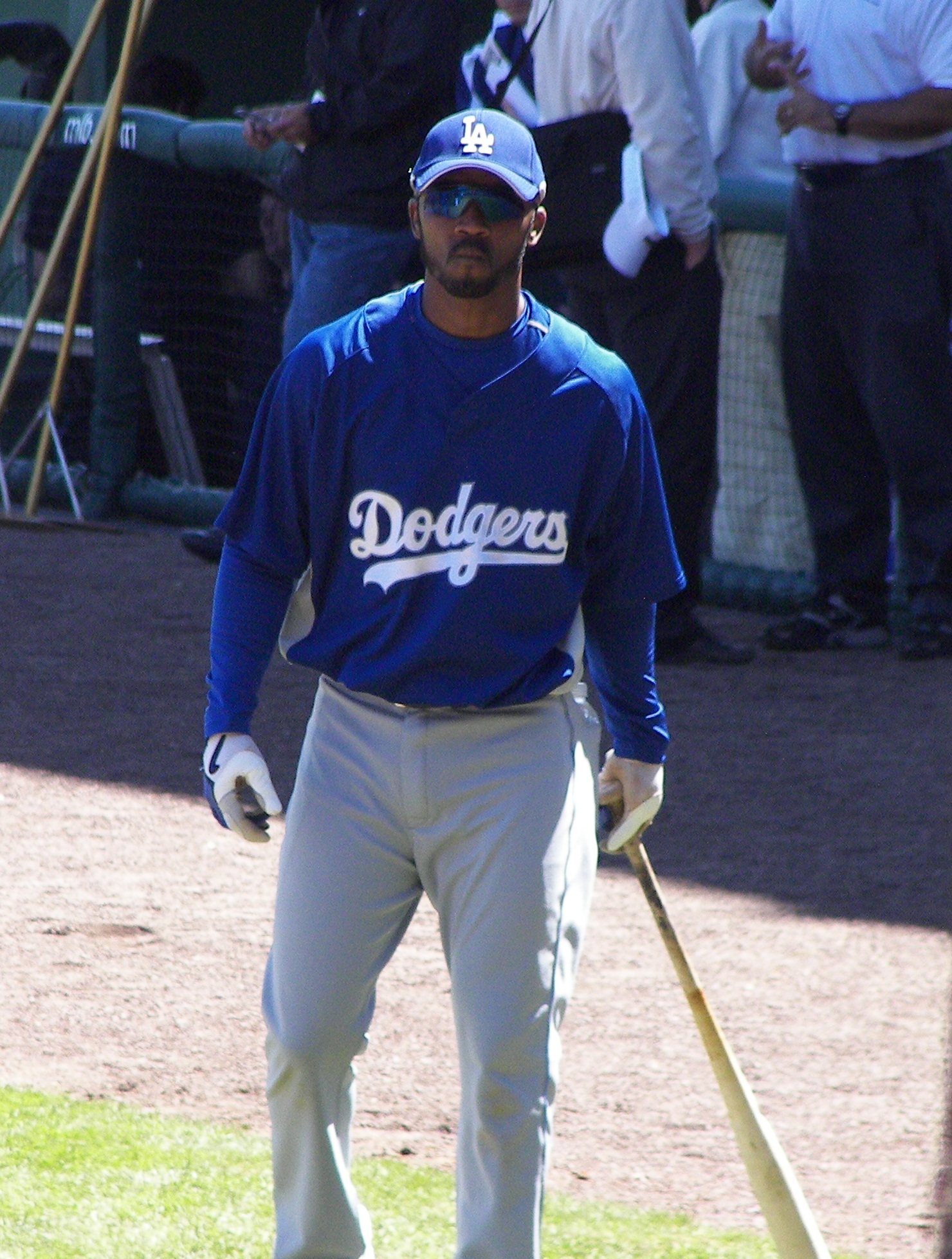 Los Angeles Dodgers player Damian Jackson before a Dodgers/Boston Red Sox spring training game at City of Palms Park in Fort Myers, Florida.